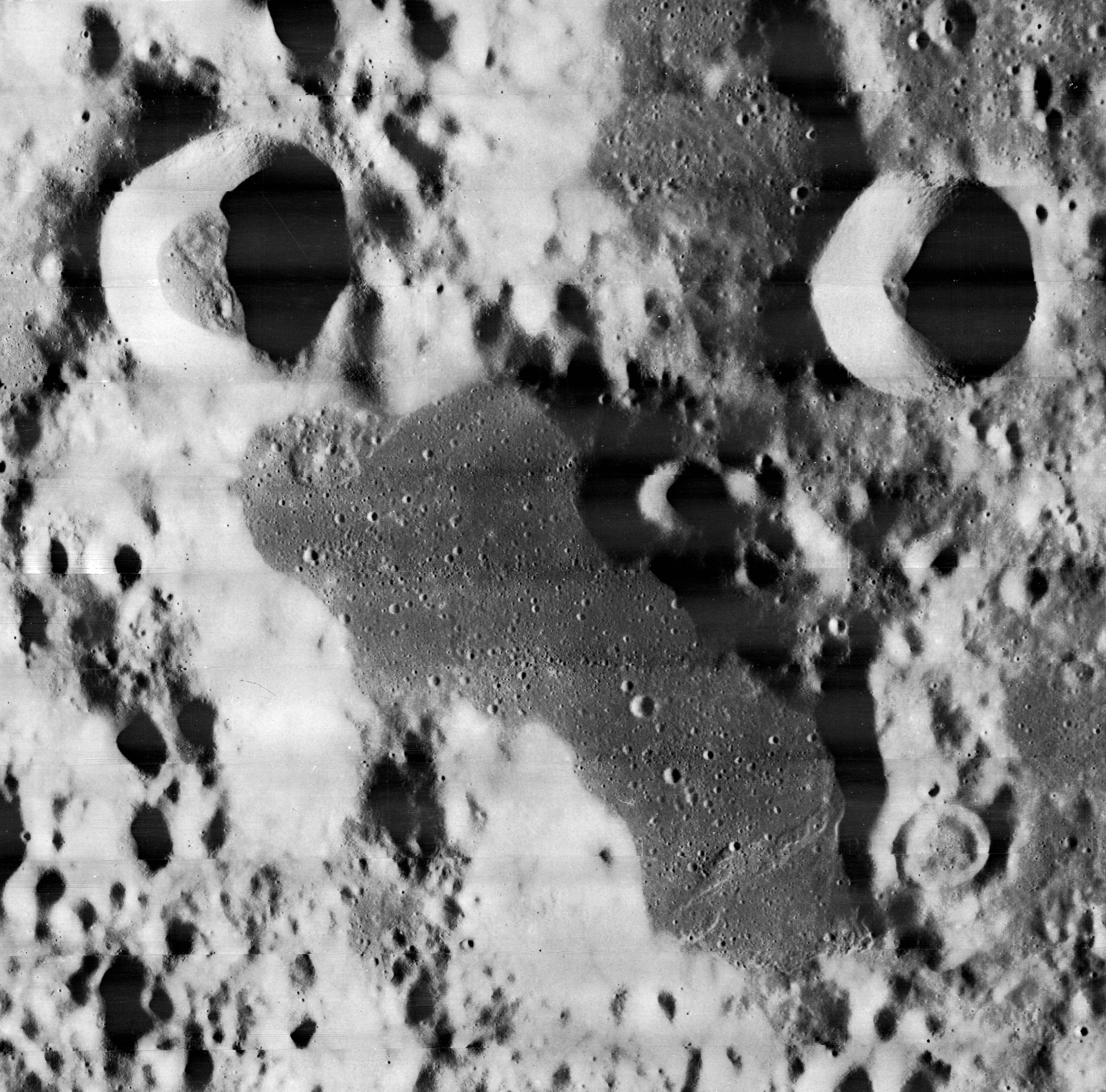 This image from Lunar Orbiter 1 shows the craters Respighi (upper left) and Liouville (upper right). The highest resolution (print) image was losslessly cropped to focus on the craters.